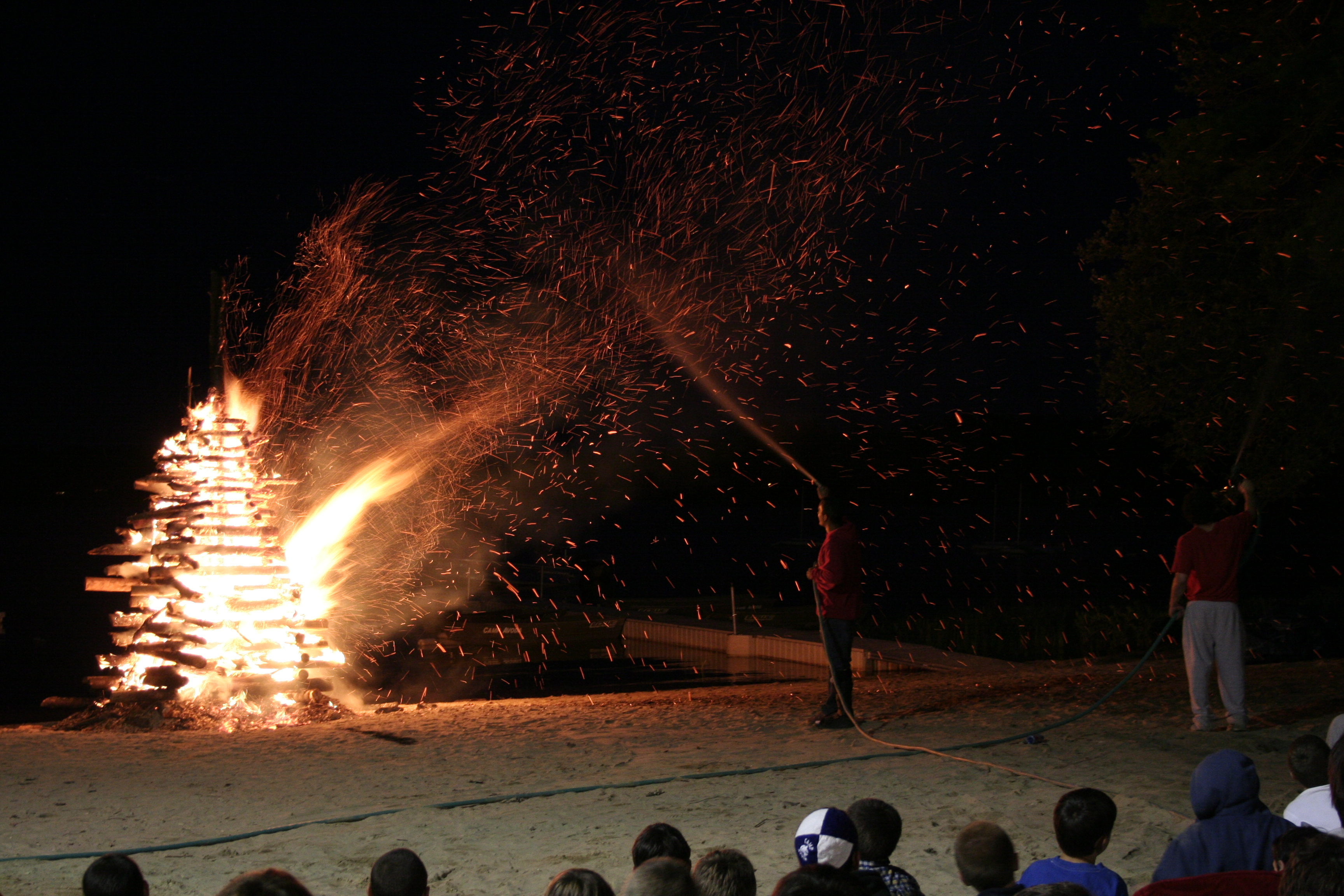 July 4th celebration at Camp Avoda Jewish boys' overnight camp located on Lake Tispaquin in Middleboro, Massachusetts